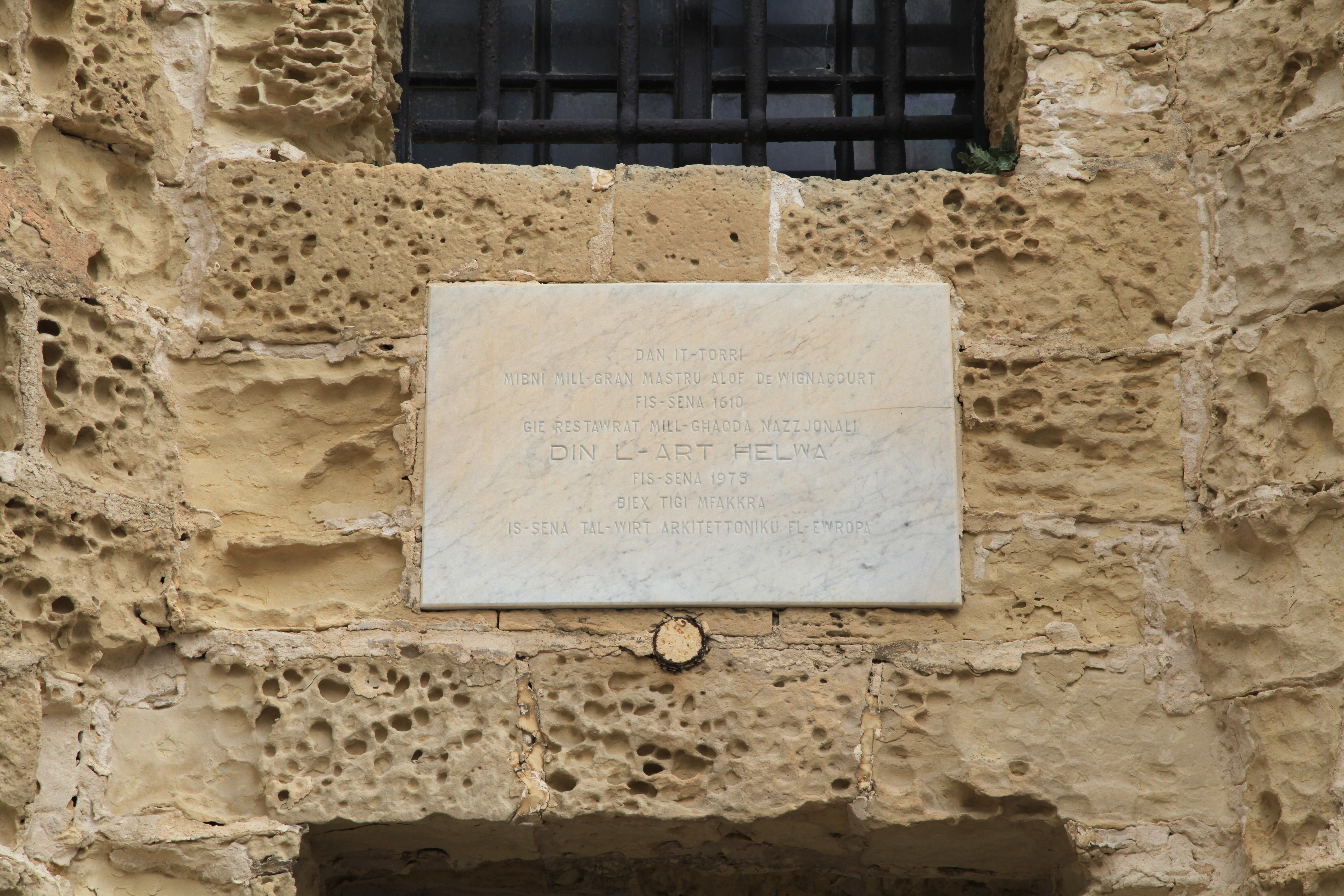 St. Paul's Bay Tower, Triq San Frangisk/Triq San Ġiraldu in St. Paul's Bay, Malta